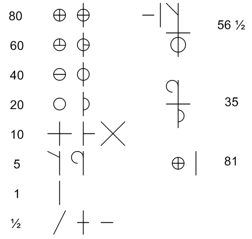 Image of numerals employed by Basque millers.